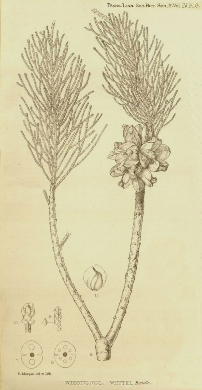 Plate from Transactions of the Linnean Society of London, 2nd series: Botany, vol. 4(1): t. 9 (1894), artist:Robert Morgan (1863-1900)